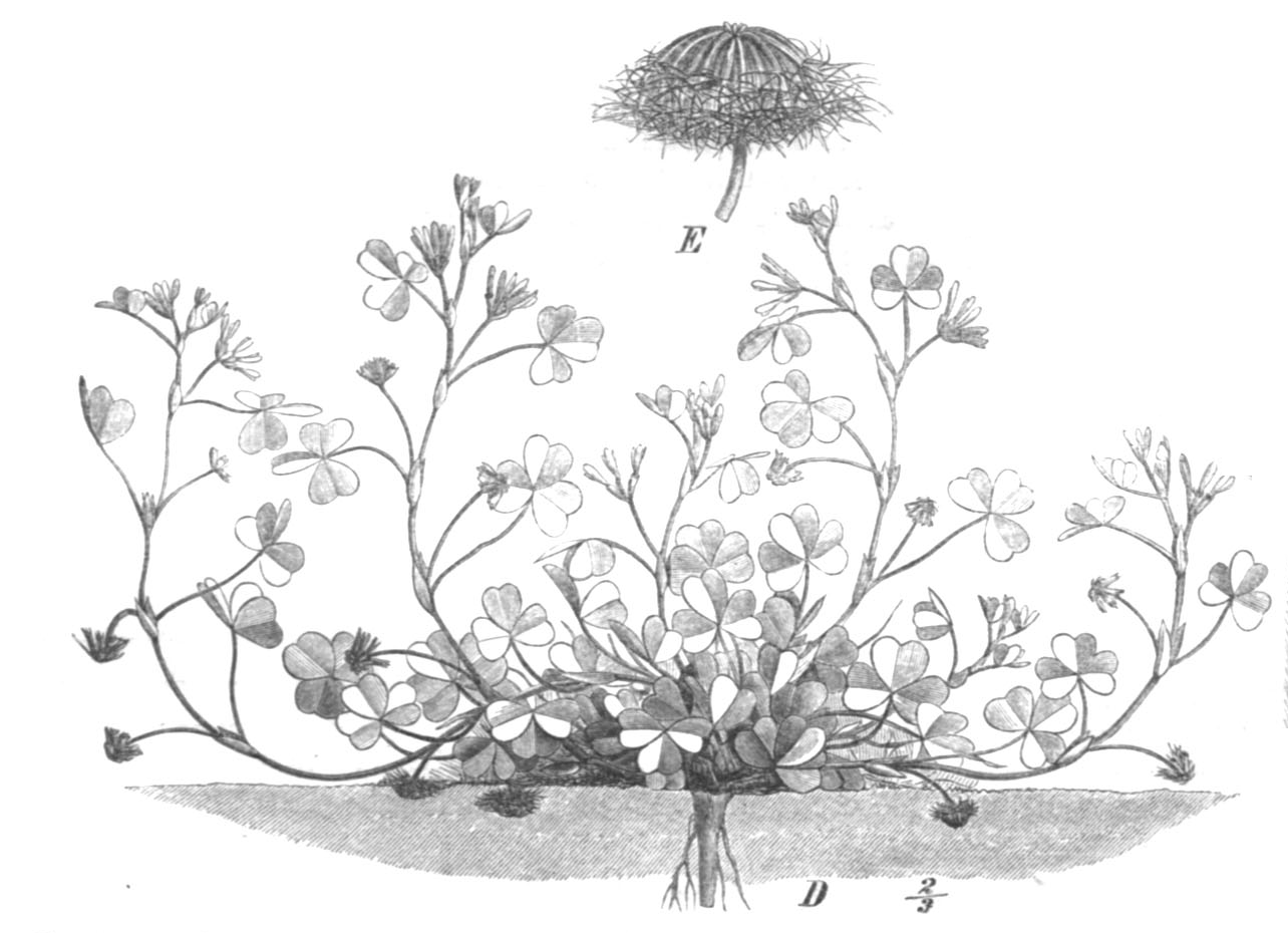 Illustration from book